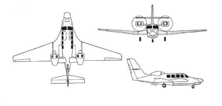 drawing plane Be-103